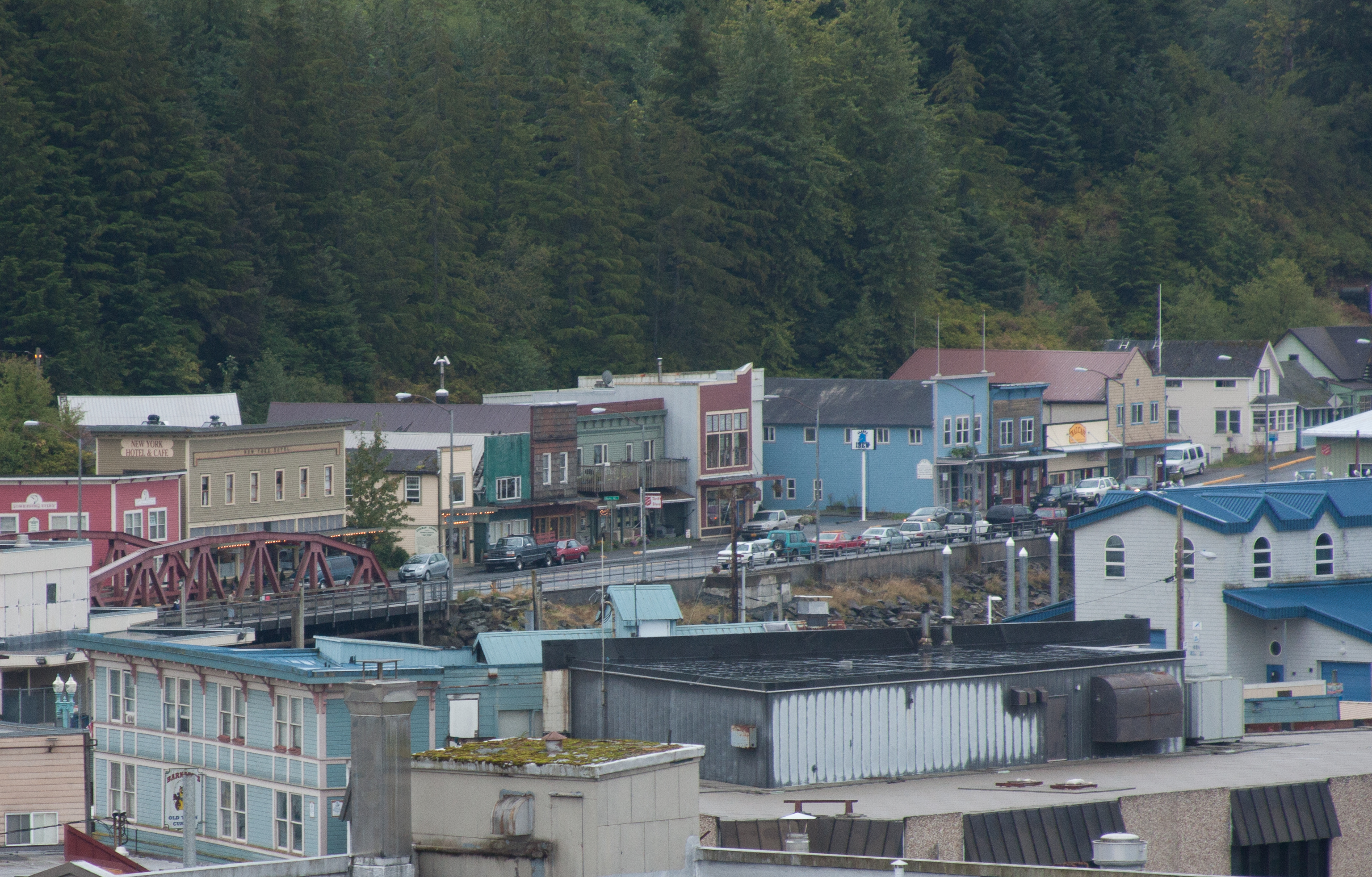 Ketchikan port